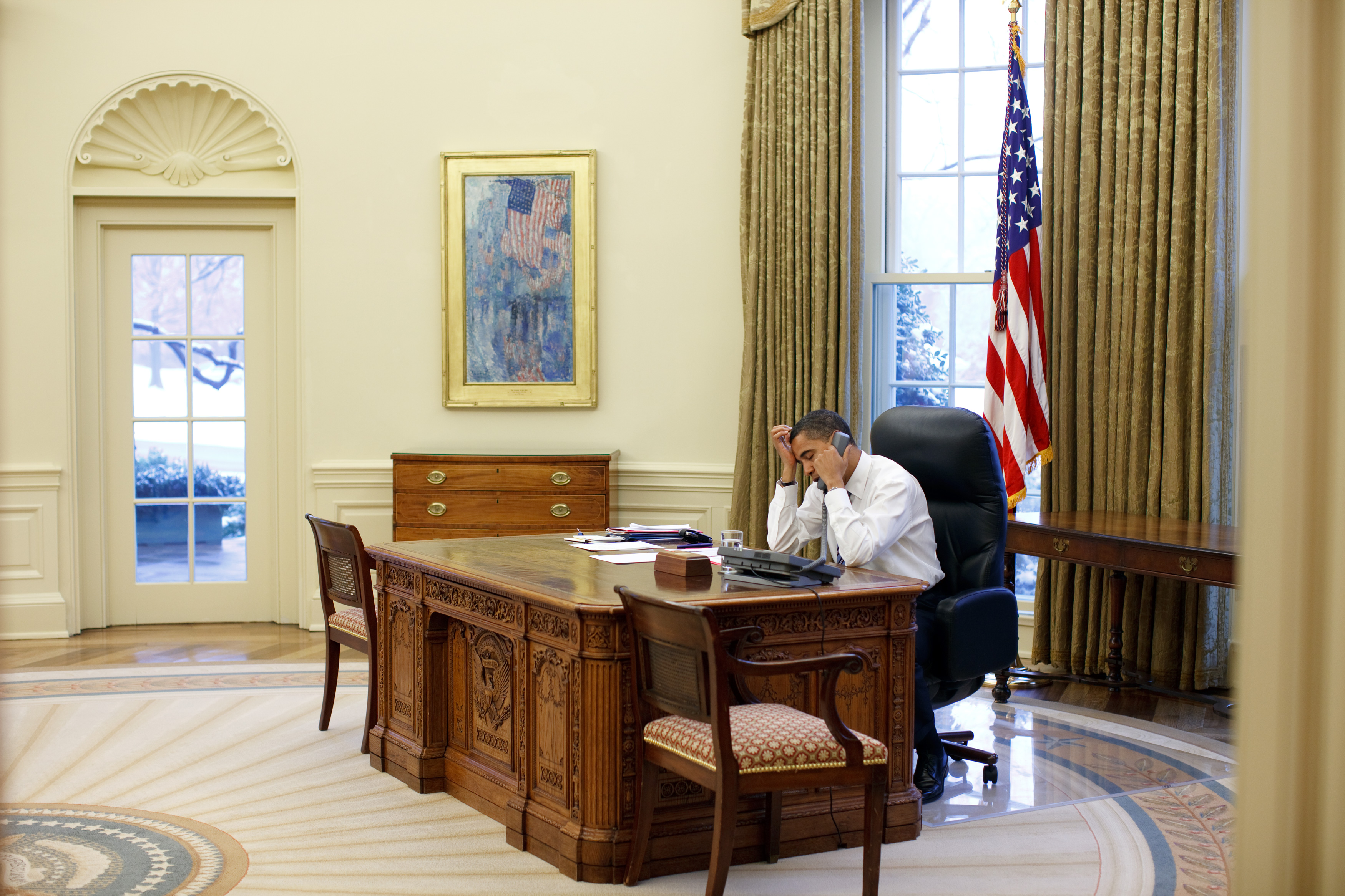 President Barack Obama in the Oval Office, 28 January 2009, eight days after taking office for his first term. He is sitting at the Resolute desk, and behind him to the left is the Childe Hassam painting The Avenue in the Rain, from the White House collection, which Obama had had installed in the Oval Office. Official White House Photo by Pete Souza.